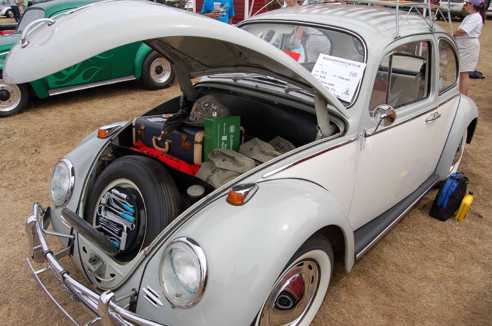 Taken during the 2007 "Red Barns Spectacular" car show at the Gilmore Car Museum, Hickory Corners, Michigan.